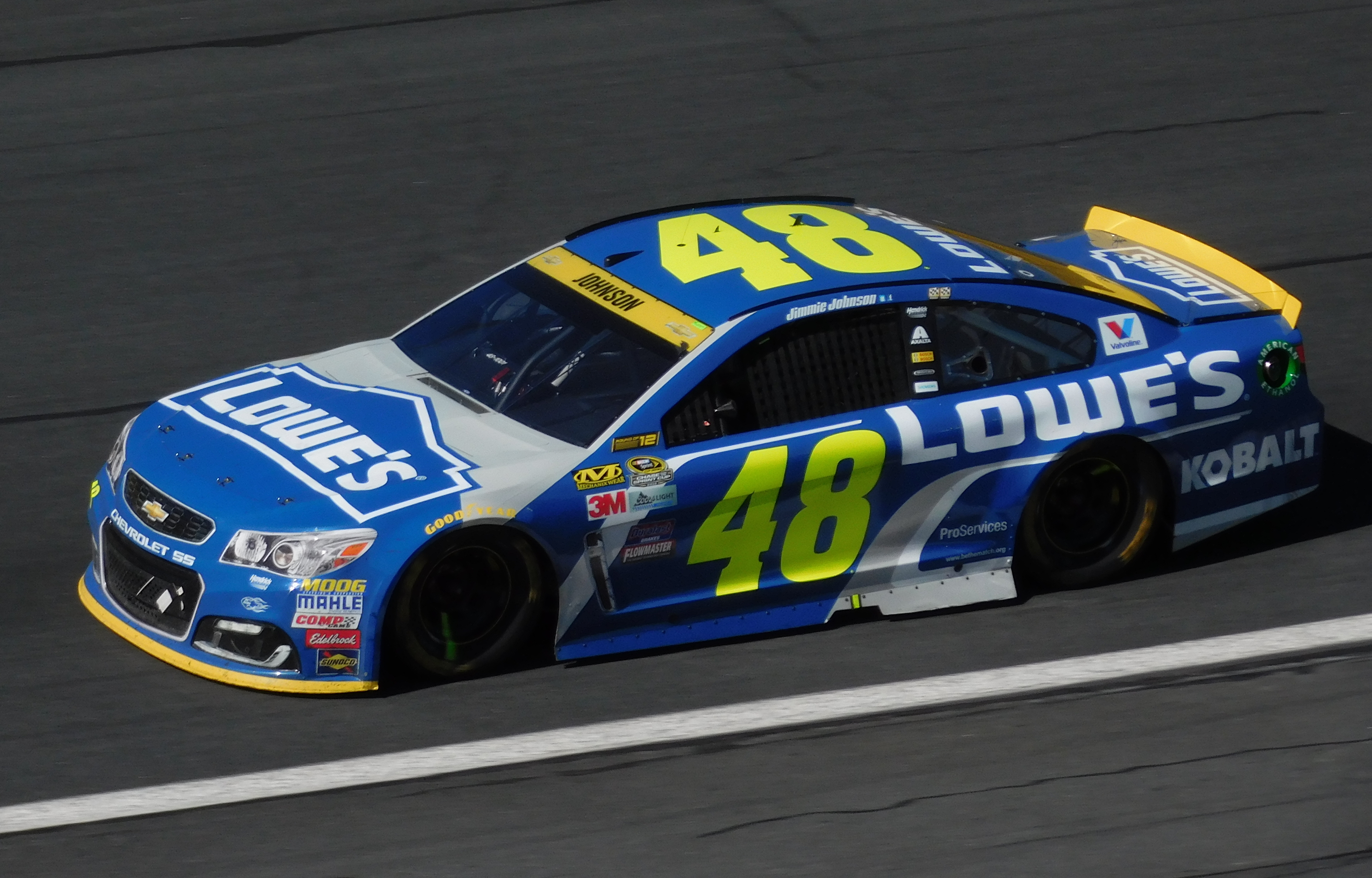 Jimmie Johnson - the eventual winner of the 2016 Bank of America 500 at Charlotte Motor Speedway.